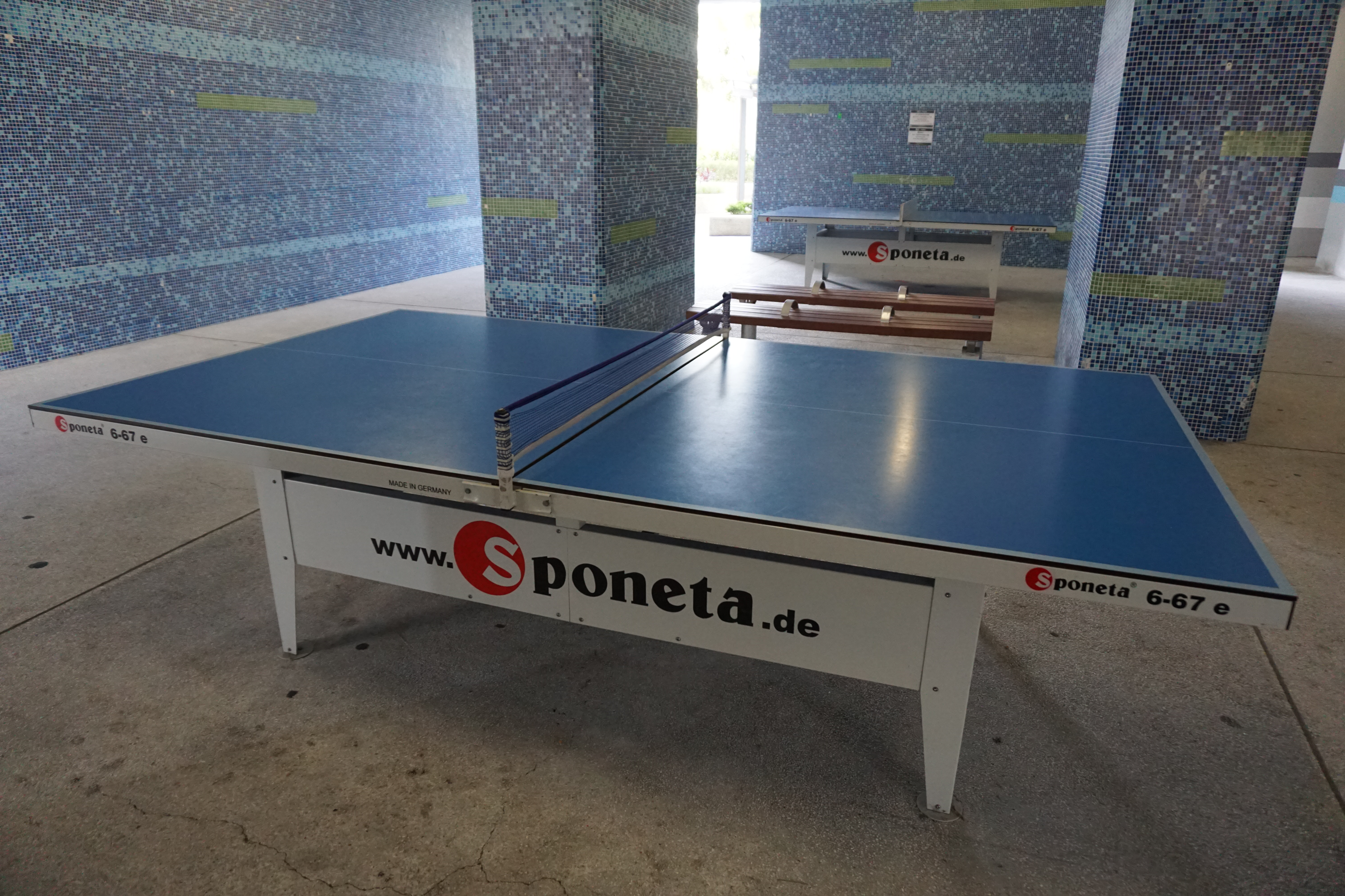 Choi Tak Estate in Kowloon Bay, Hong Kong.